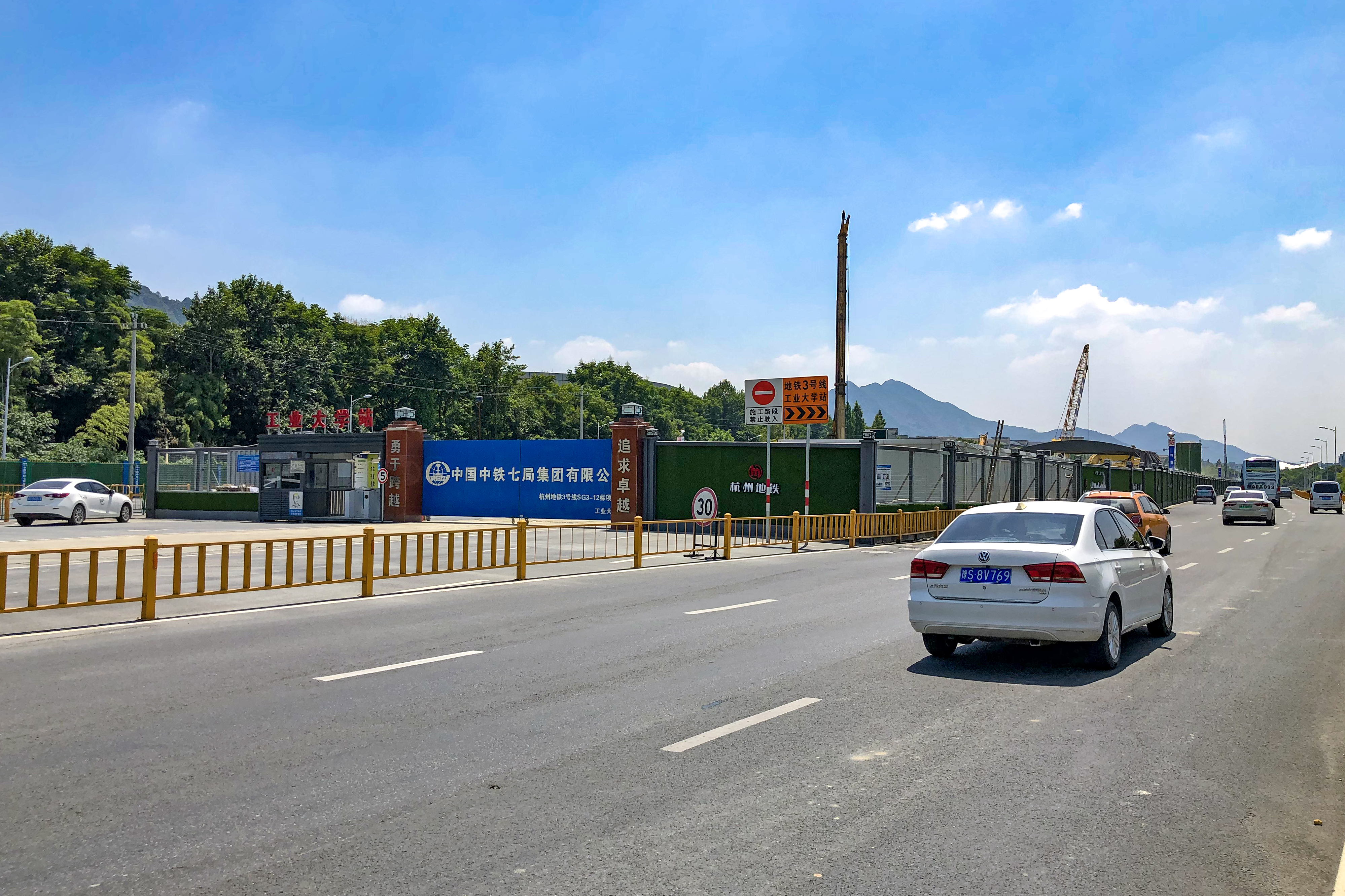 Nearly isolated place...